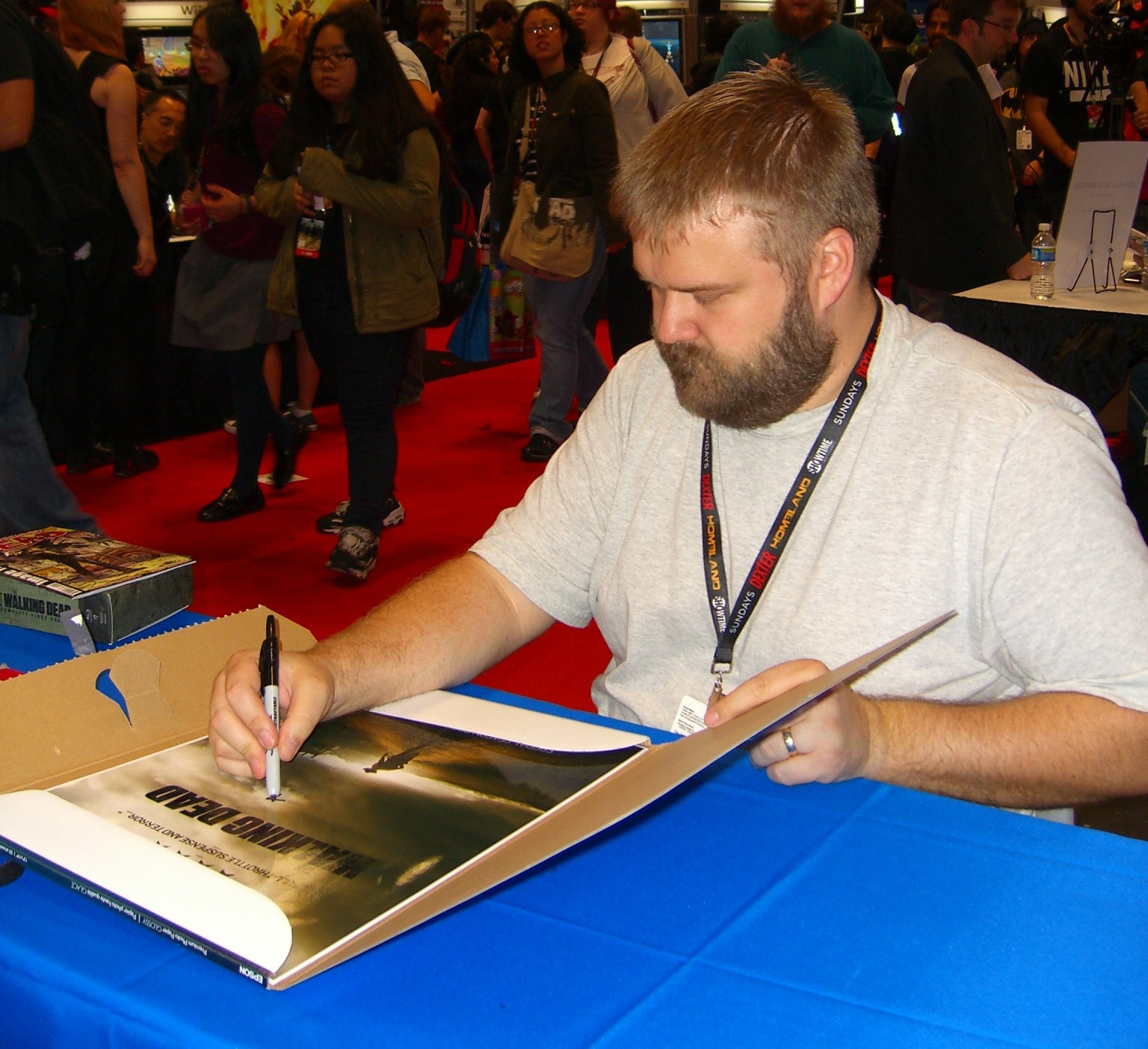 Comic book creator Robert Kirkman signing books and memorabilia for fans at the 2011 New York Comic Con, October 14, 2011. This photo was created by Luigi Novi. It is not in the public domain, and use of this file outside of the licensing terms is a copyright violation.